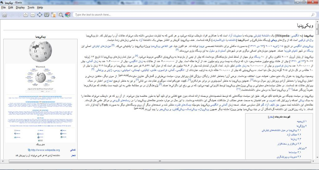 The screenshot of Persian Kiwix